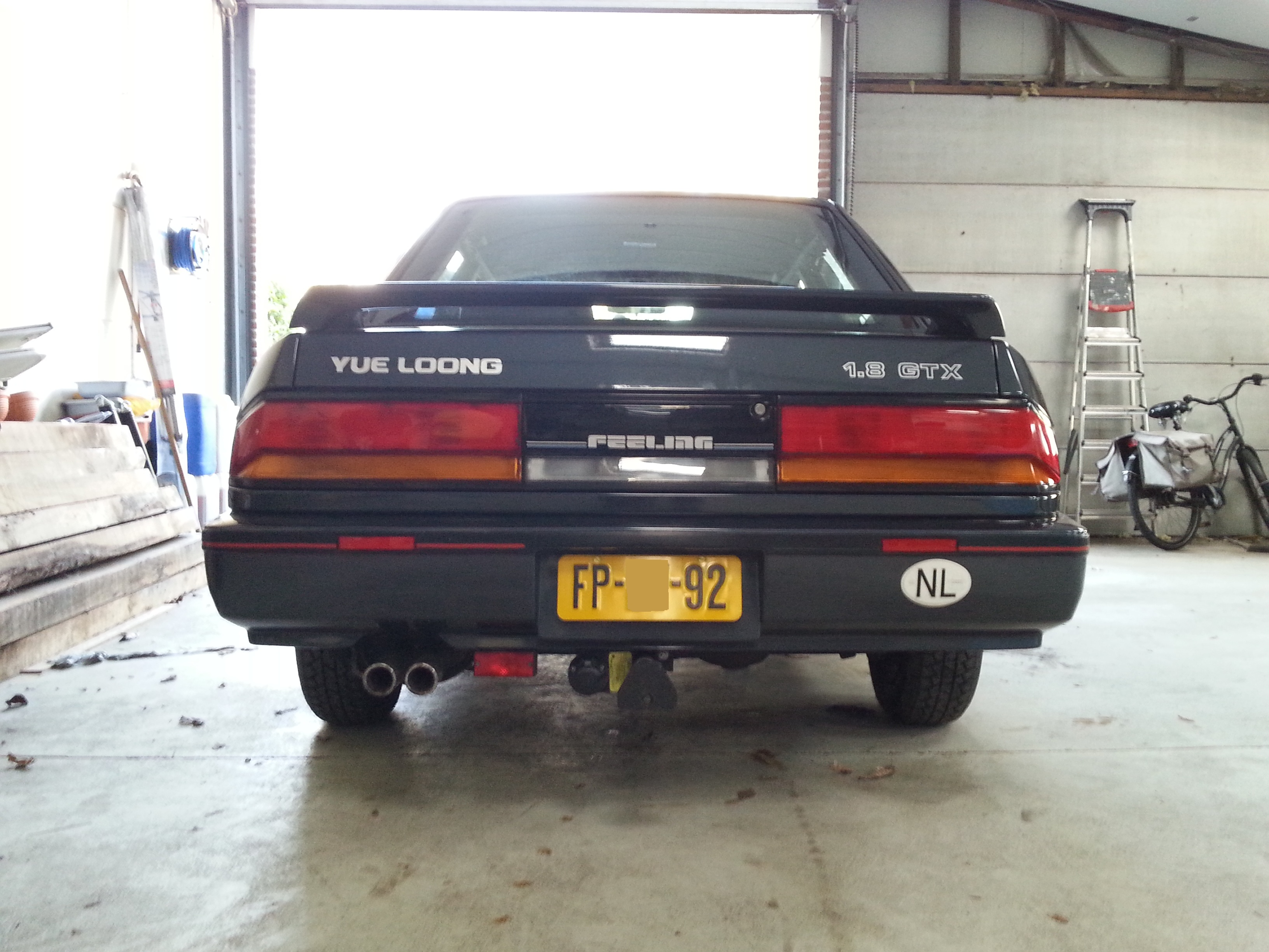 The rear end of the only in Europe remained Yue Loong Feeling 1.8GTX.